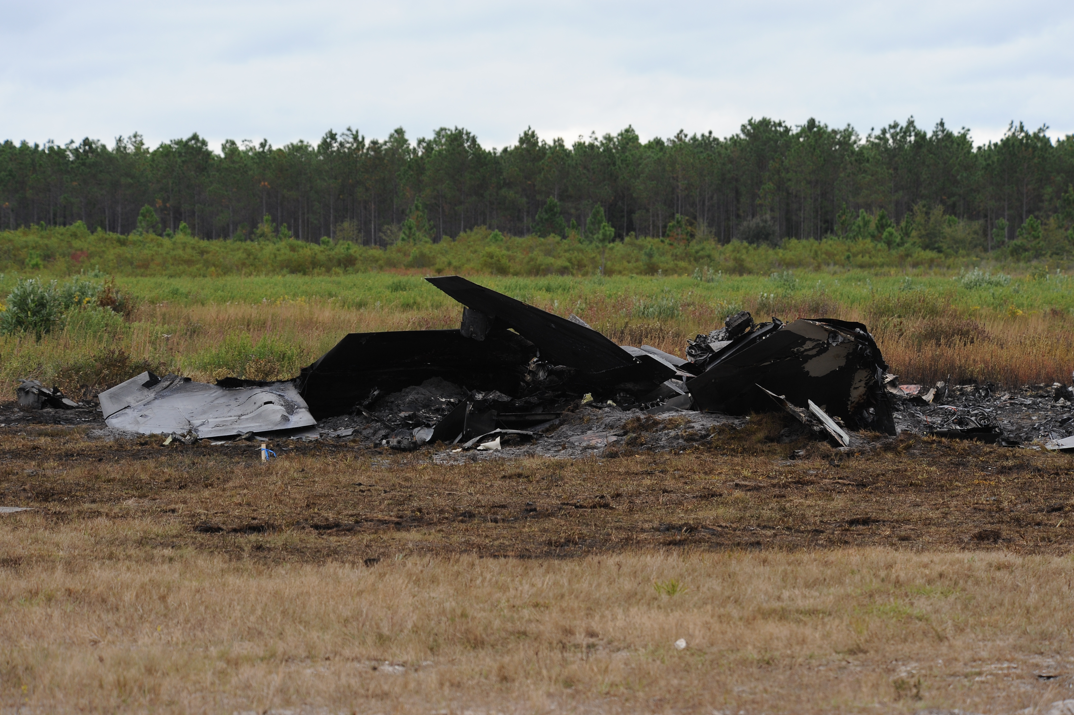 The F-22 Raptor crash at Tyndall AFB in November 2012.